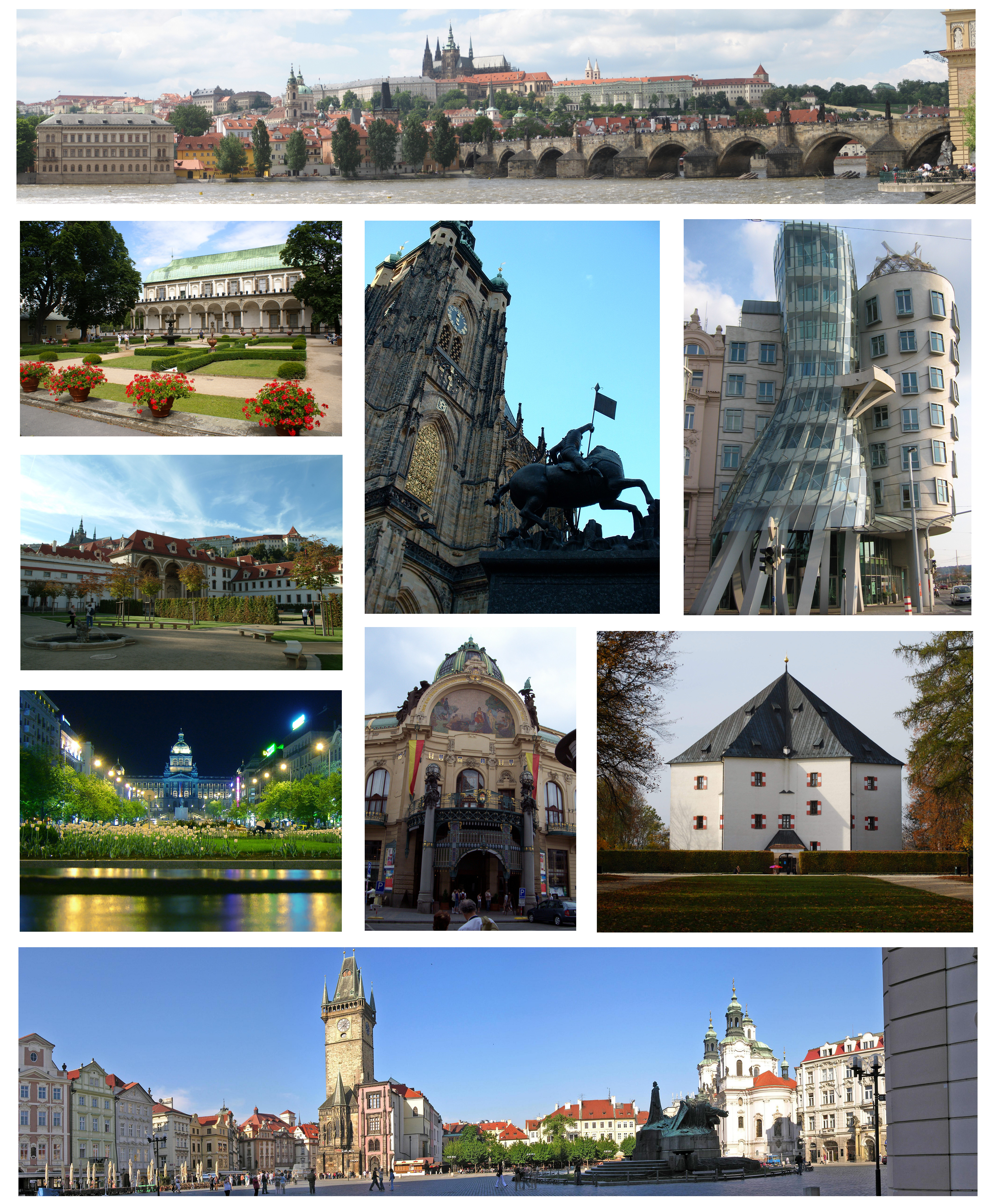 Top: Panorama of Hradčany with Prague Castle and Charles Bridge Left 1: Queen Anna's villa in the Royal Garden Left 2: Valdštejn Palace – seat of the Senate of the Parliament of the Czech Republic Left 3: Wenceslas Square at night Bottom: Panorama of Old Town Square with Old Town City Hall and memorial of Jan Hus Middle 1: Detail of the tower of St. Vitus Cathedral and statue under it Middle 2: Entrance to the Municipal house Right 1: The Dancing house Right 2: Star Villa